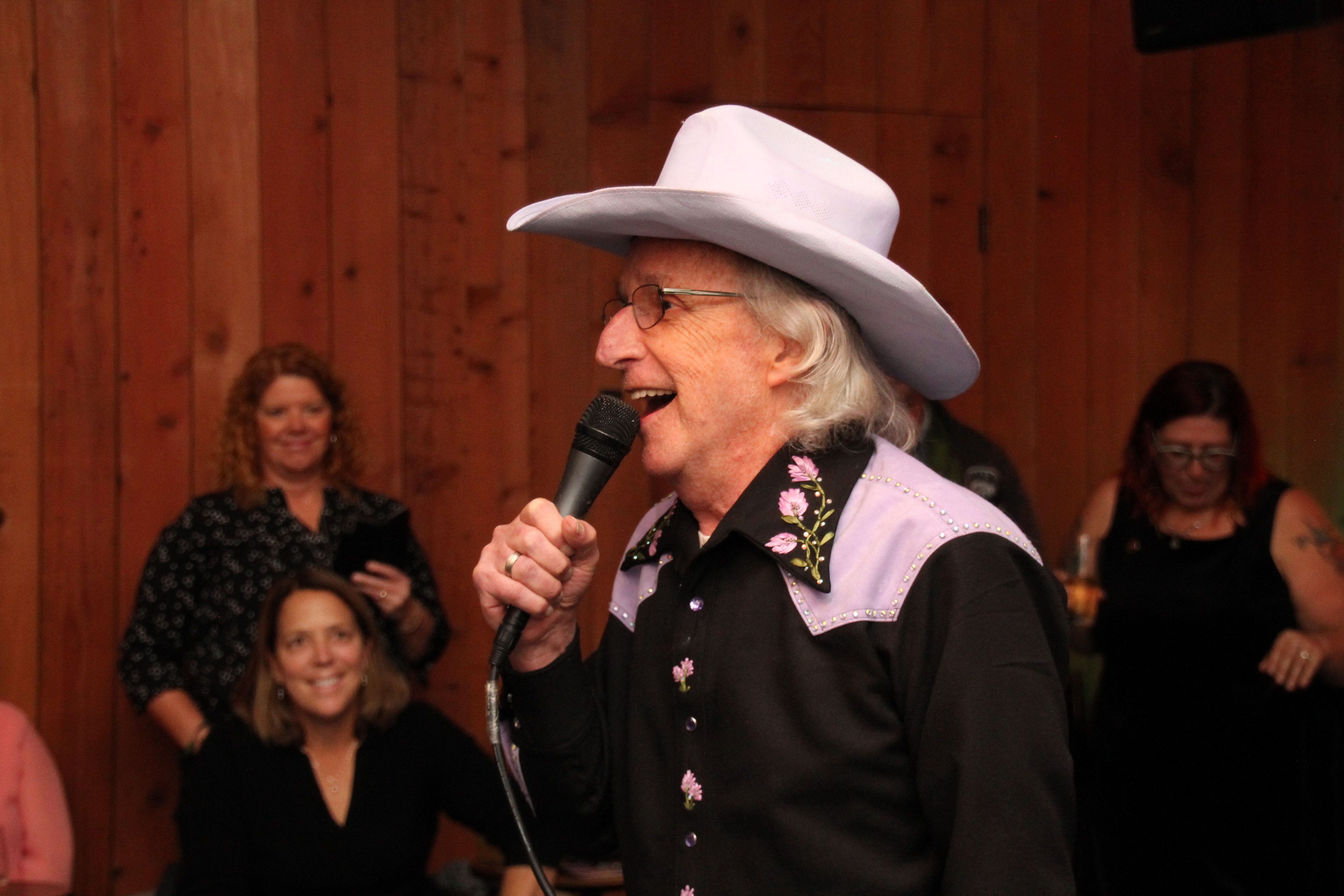 Lavender Country live at The Starling in Sonoma, California